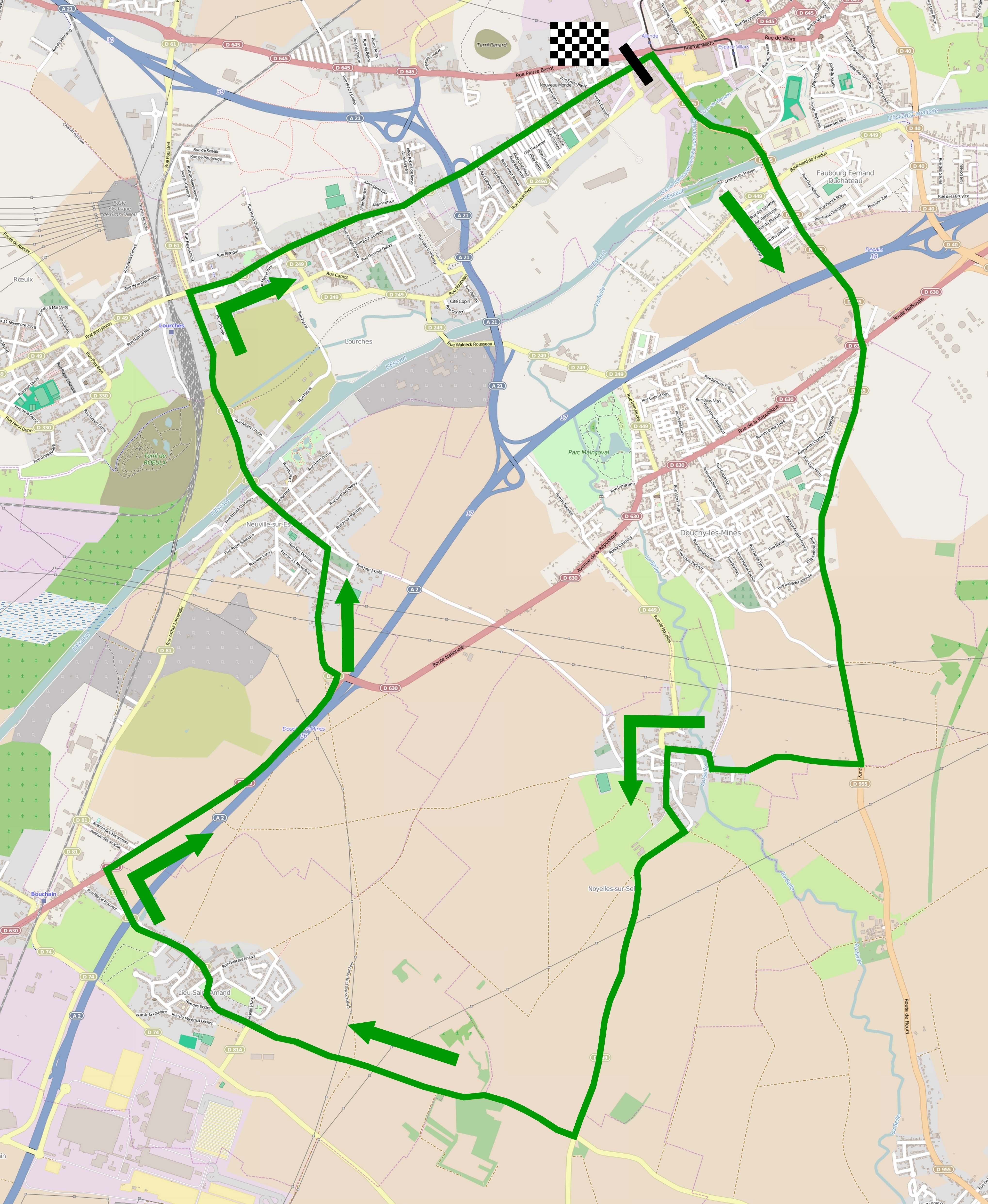 Parcours du circuit local du Grand Prix de Denain 2015. This map may be incomplete, and may contain errors. Don't rely solely on it for navigation.